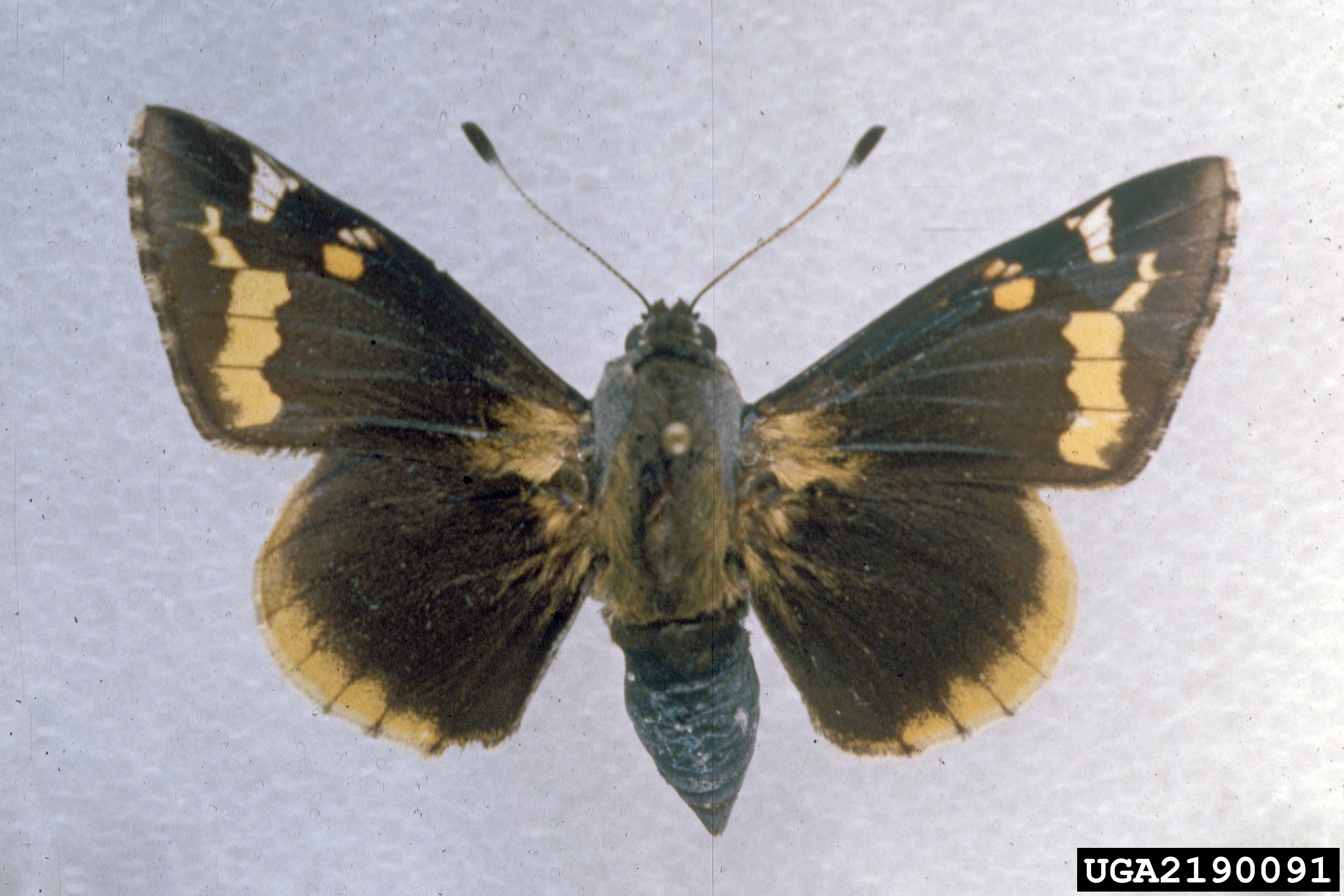 Megathymus yuccae. Lauderdale County, Savoy, Florida, United States.